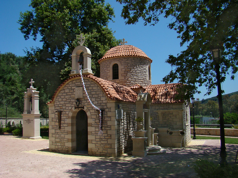 Church of Agiou Christoforou, near Koulkouthiana, Crete, Greece.